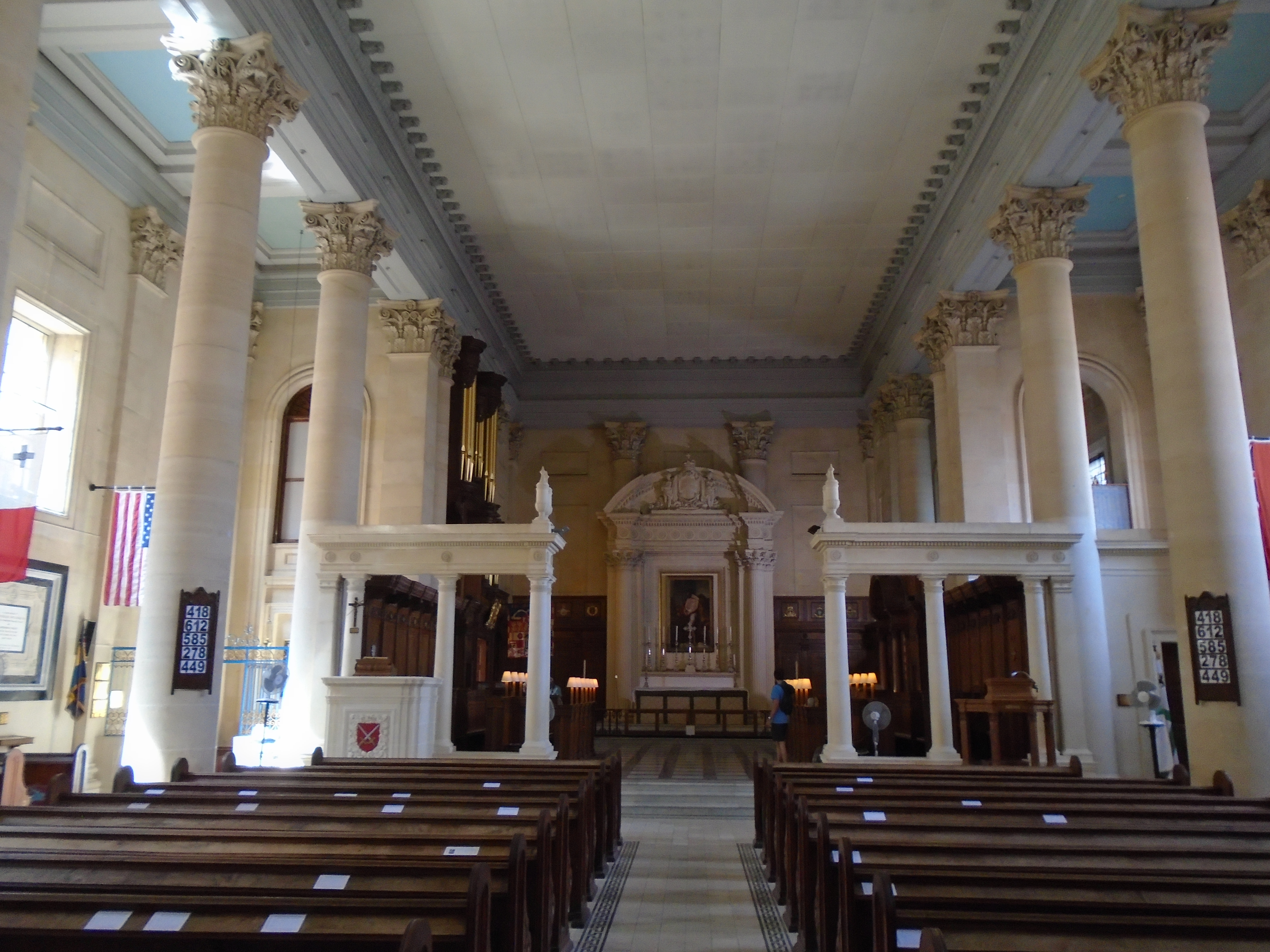 The interior of the Pro-cathedral of Saint Paul in Valletta, Malta.